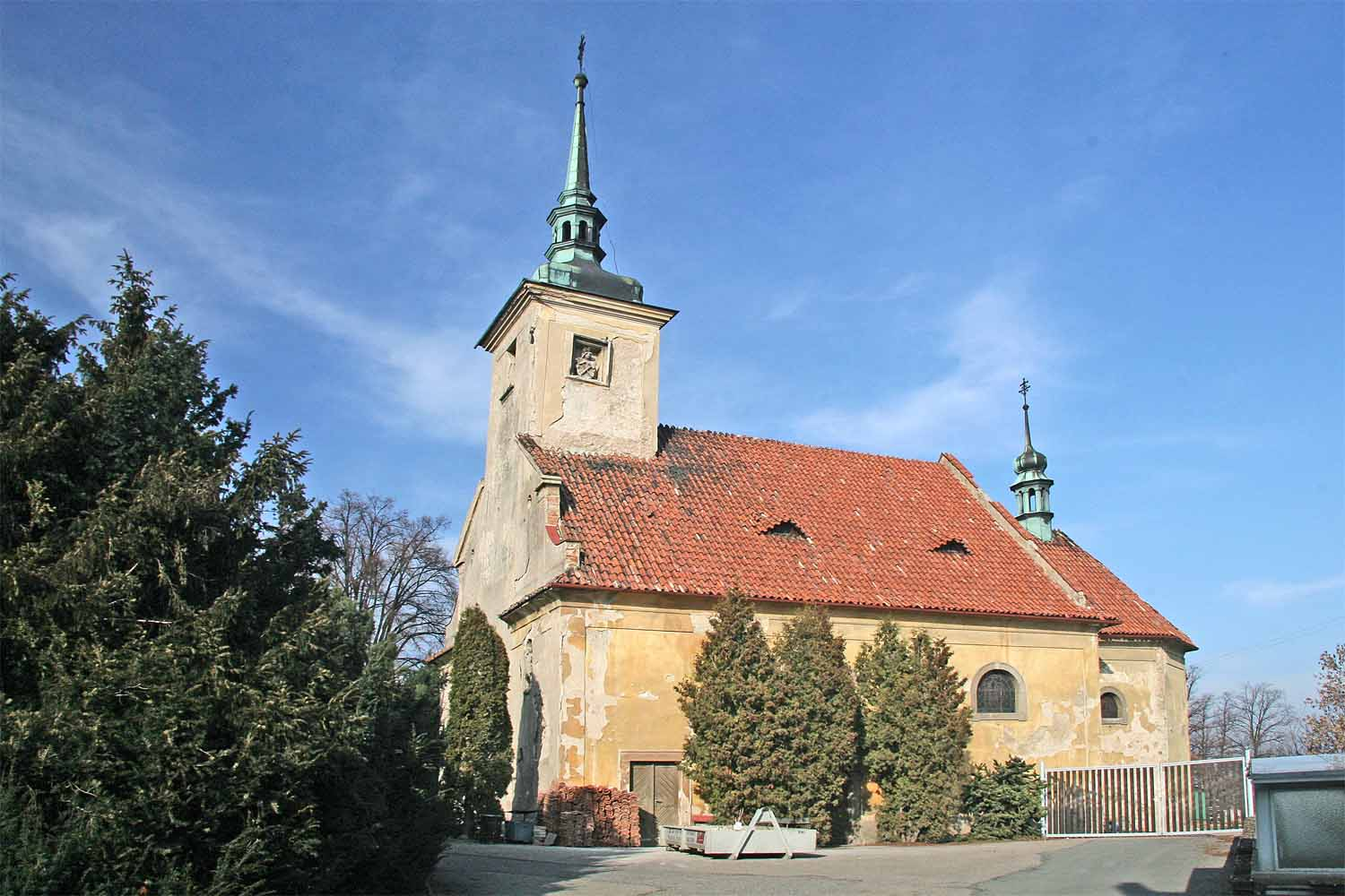 Church of All Saints at cemetery in Kutná Hora, Czech Republic.